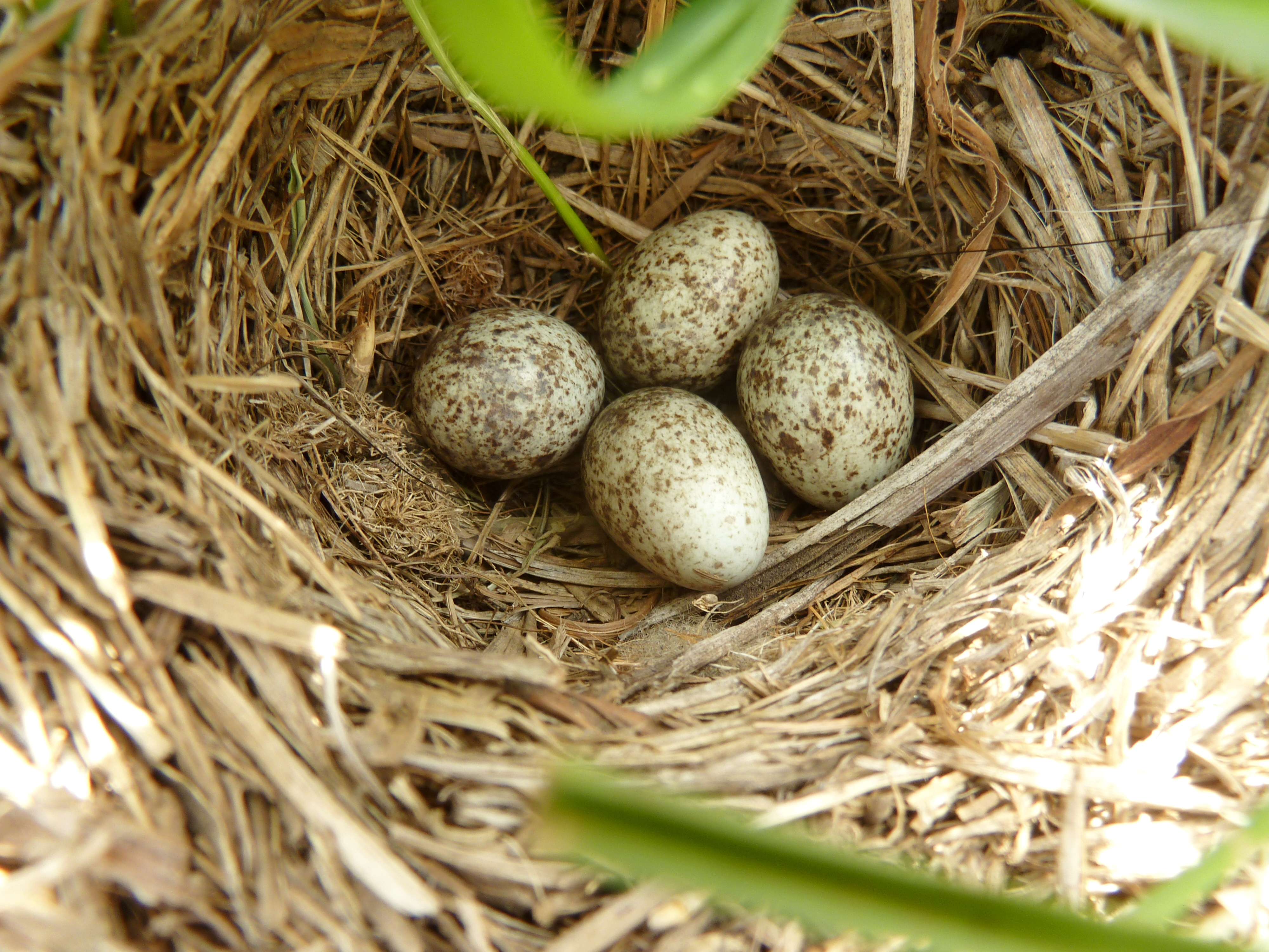 Nest of a Grassveld pipit at Zoutpan near Pretoria. The nest was placed at the shaded base of a green grass tussock, facing east, on a well-grazed and level floodplain. The bird escaped from the nest as we came very near, and acted out an elaborate terrestrial distraction display, before it rose into the air and gave the typical Grassveld pipit song.